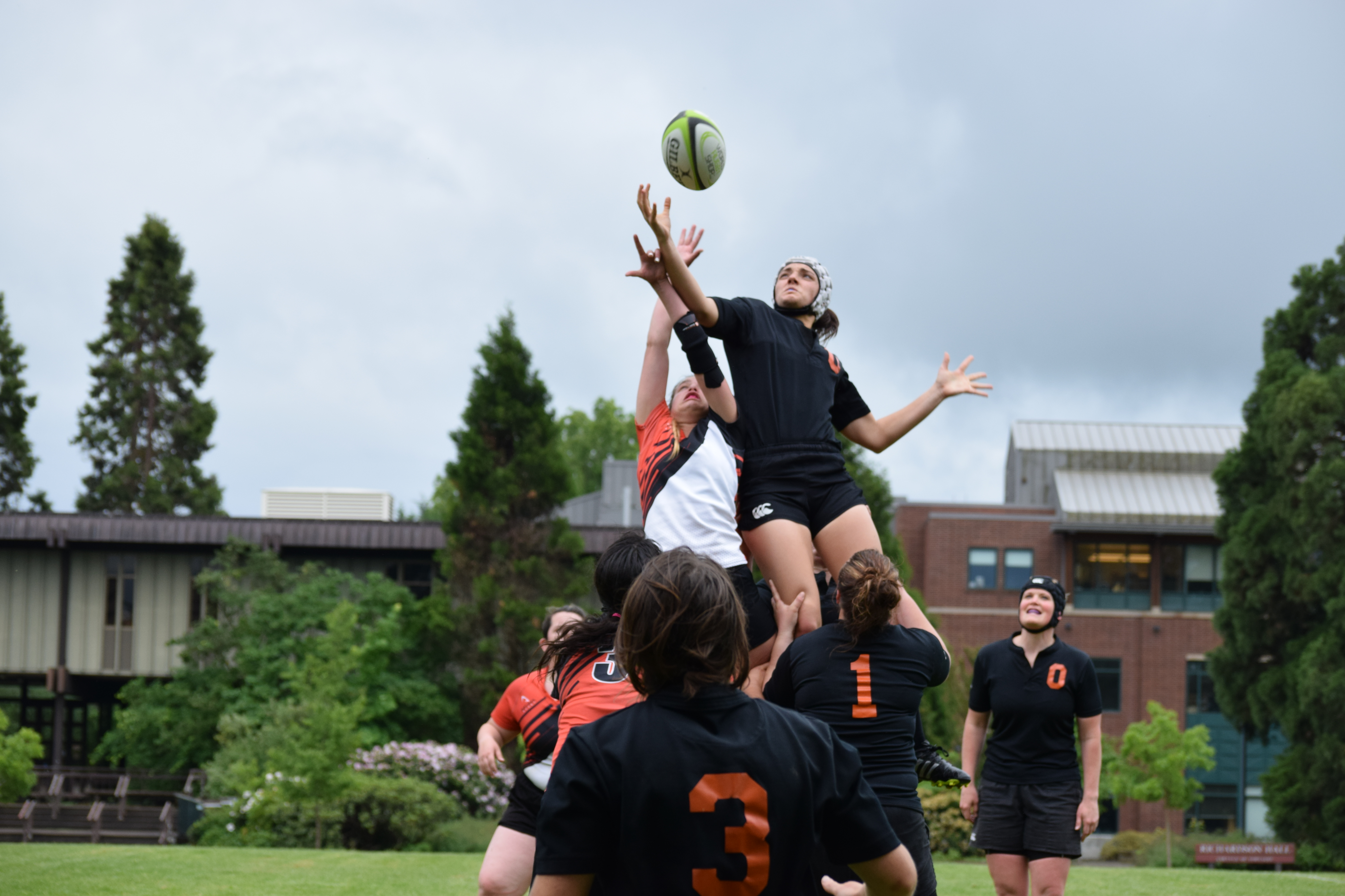 A picture of a lineout in a rugby game